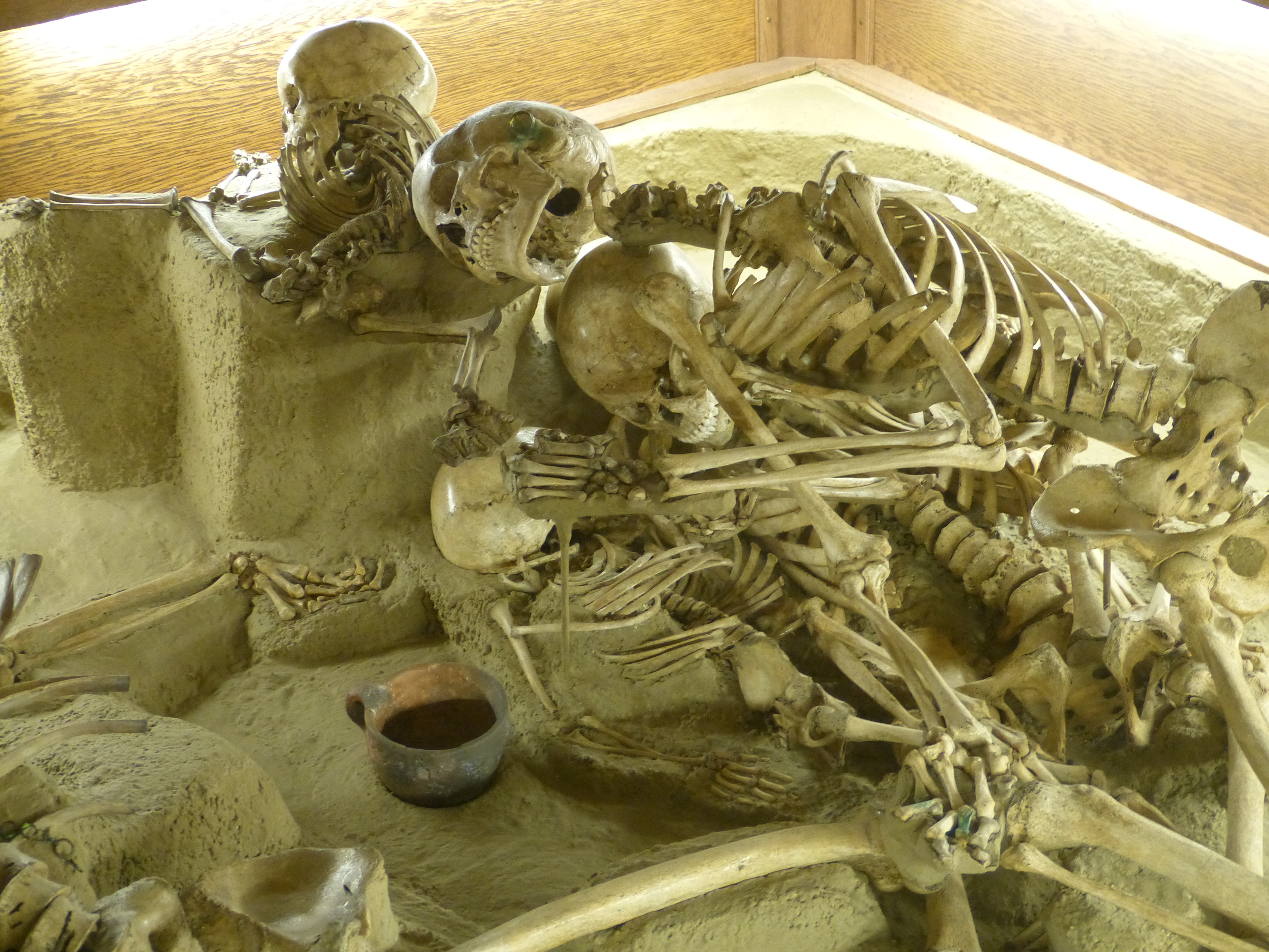 Natural History Museum, Vienna (Austria). Skeletons of a family (9th century BC) of the Urnfield culture site at Stillfried (Angern an der march /Lower Austria)